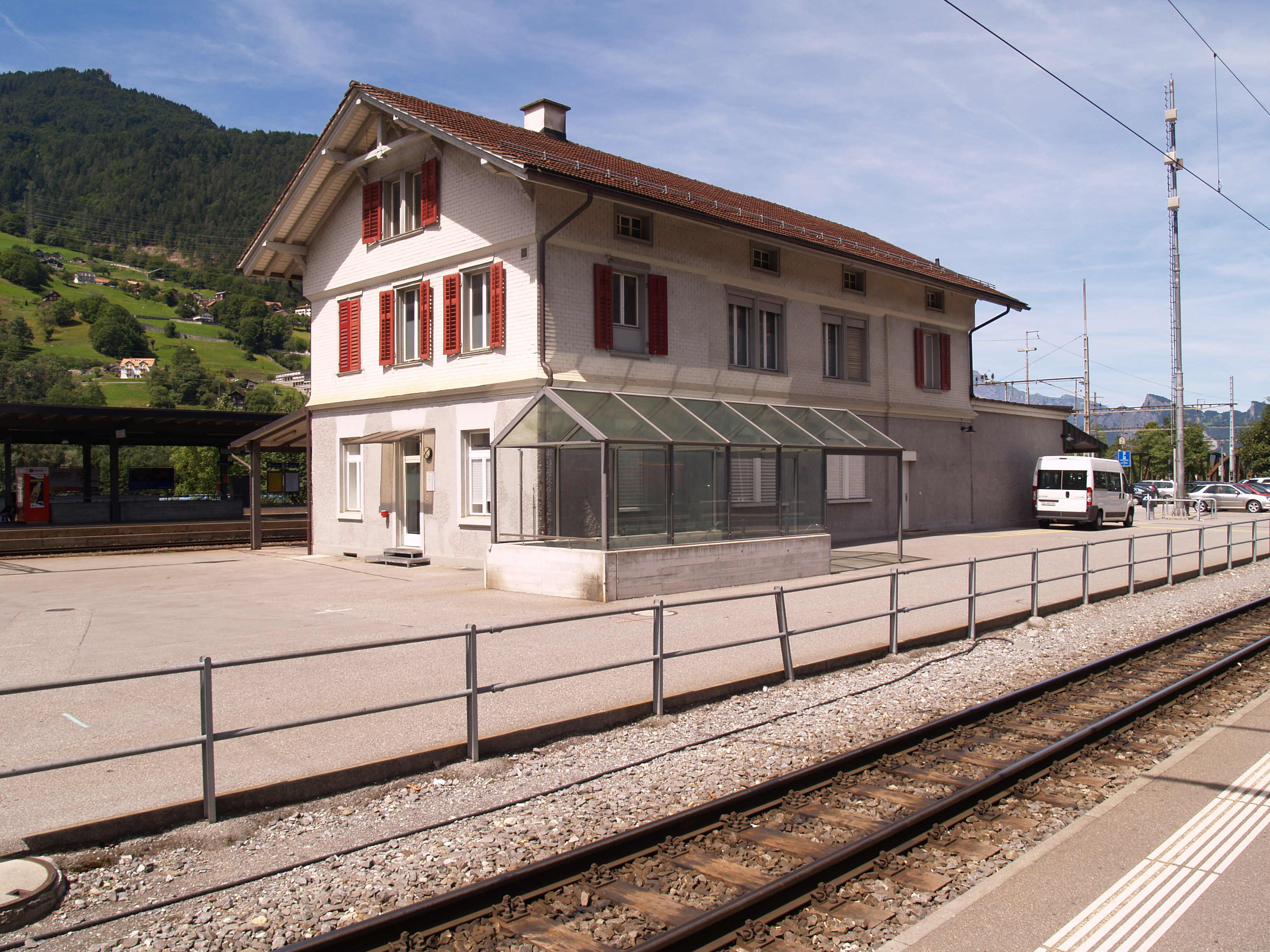 Old Railstationbulding Landquart